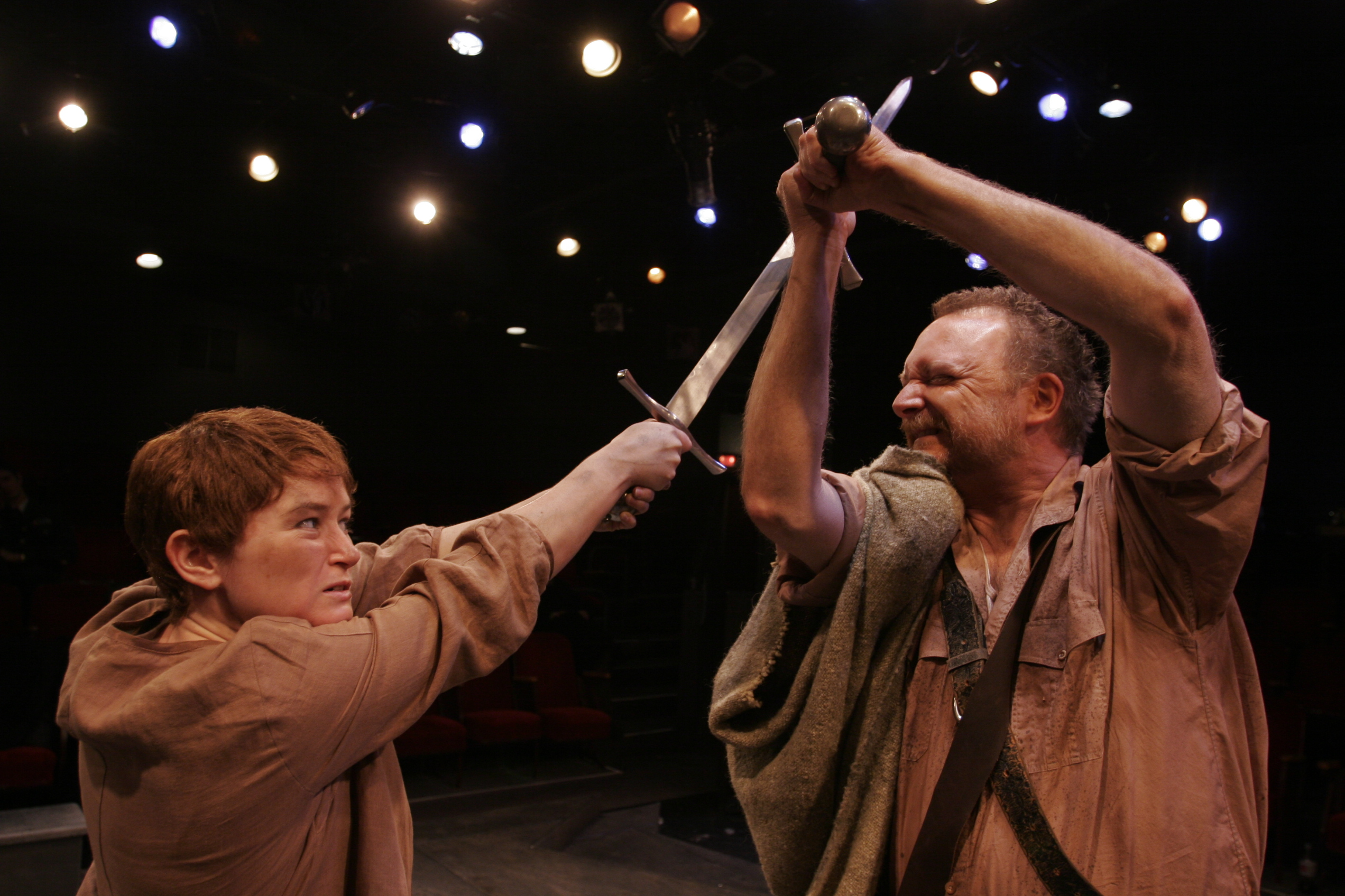 Barksdale Theatre's production of The Lark at Willow Lawn in the Spring of 2006.